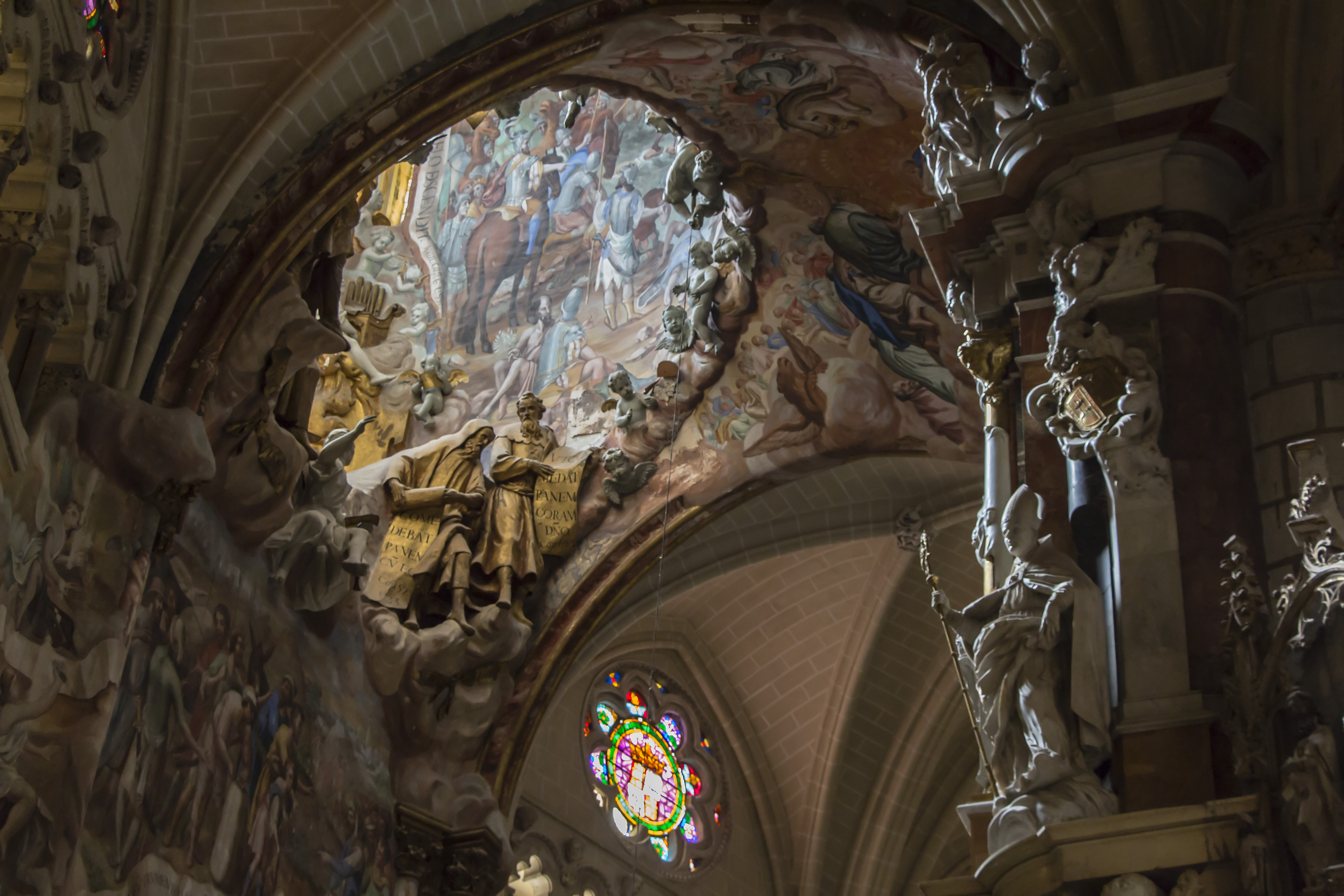 View of "El Transparente", a Baroque altarpiece in the ambulatory of the Cathedral of Toledo (Spain).